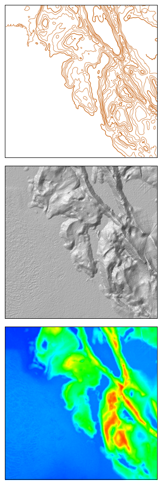 LIDARi andmetest tuletatud reljeefi kujutamise viisid (samakõrgusjooned, varjutuspilt, värviline mudelipilt)